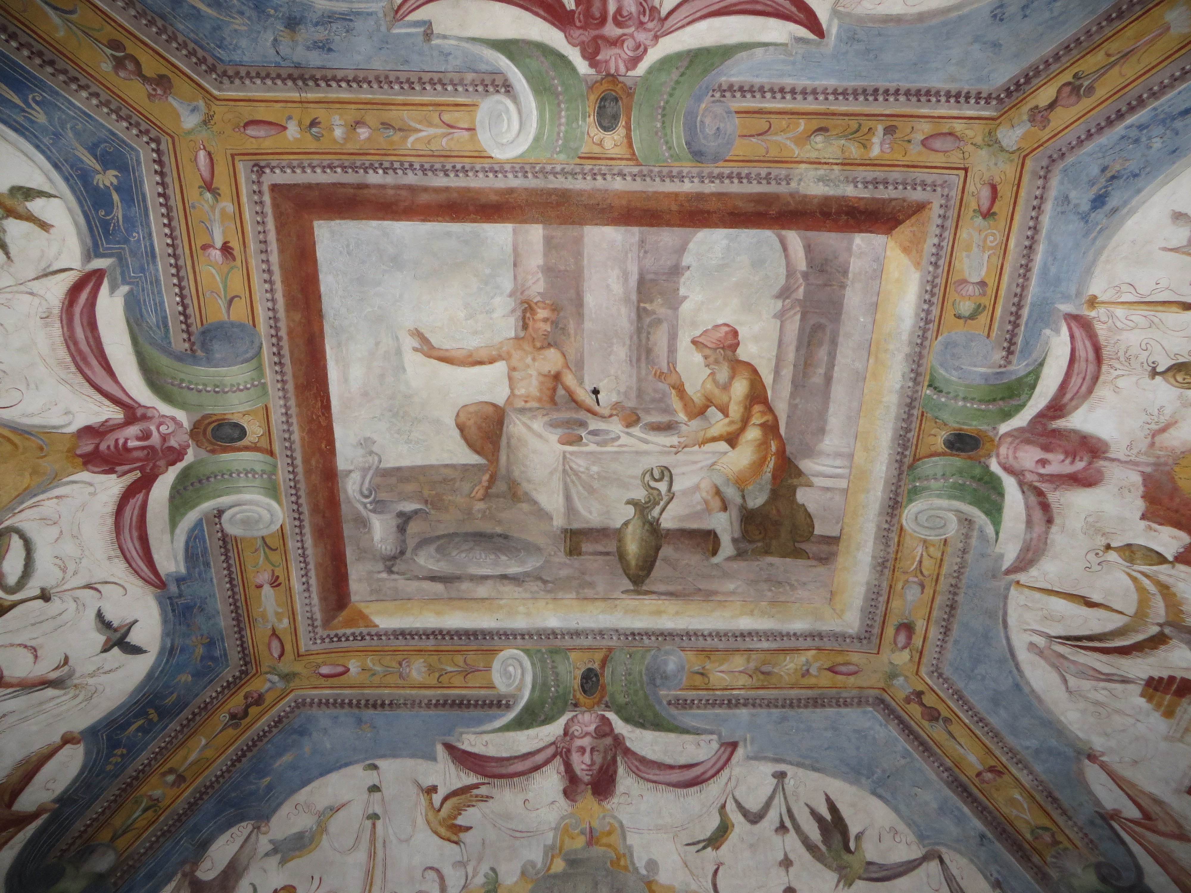 Rossi Castle San Secondo12